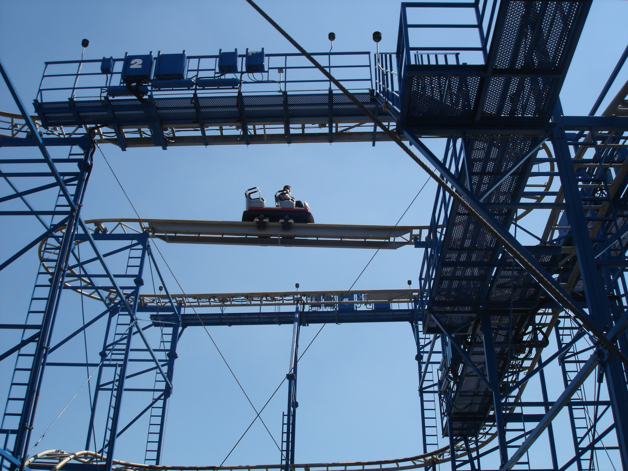 Wild Mouse ride at Hersheypark, Hershey PA, US. Taken from beneath ride on exit path looking up.